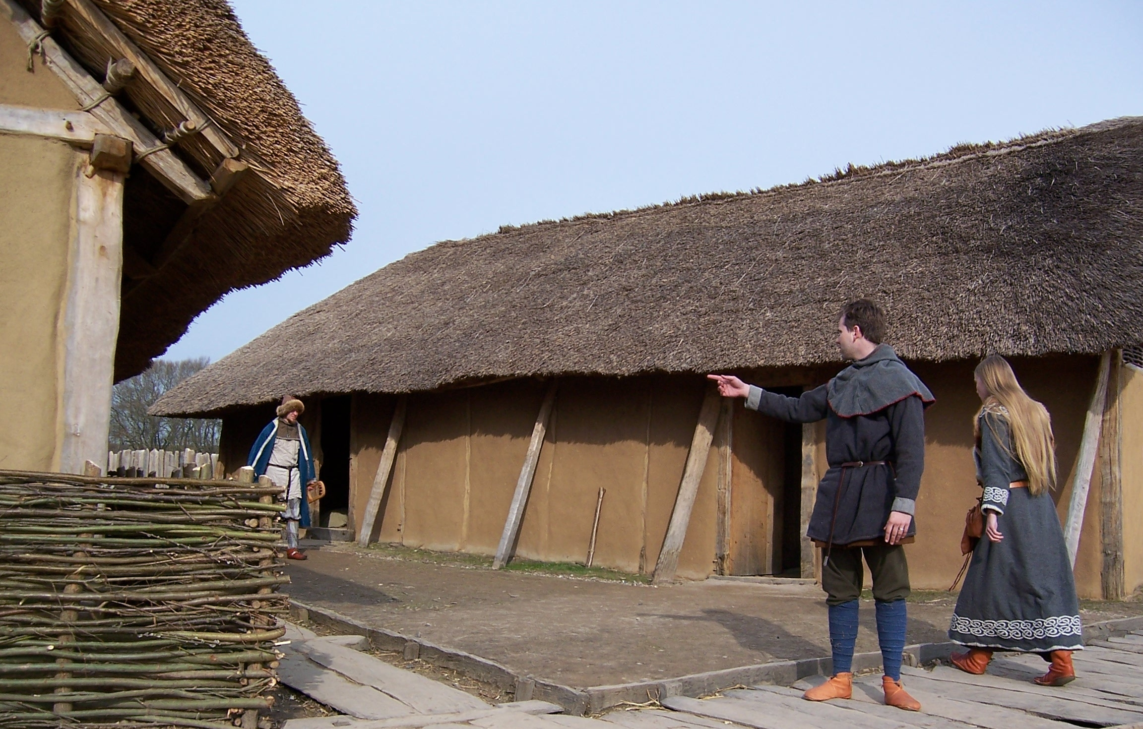 Author: Caravaca. Date: April 2006. Description: Reconstructed Viking houses at Hedeby (Haithabu) in Northern Germany.